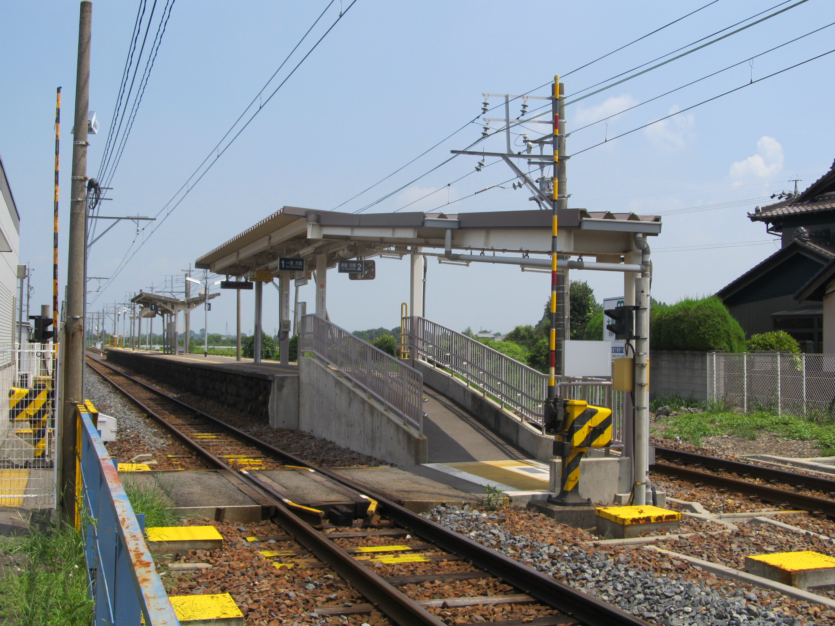 Nagoya Railroad Bisai Line Marubuchi Station Platform.